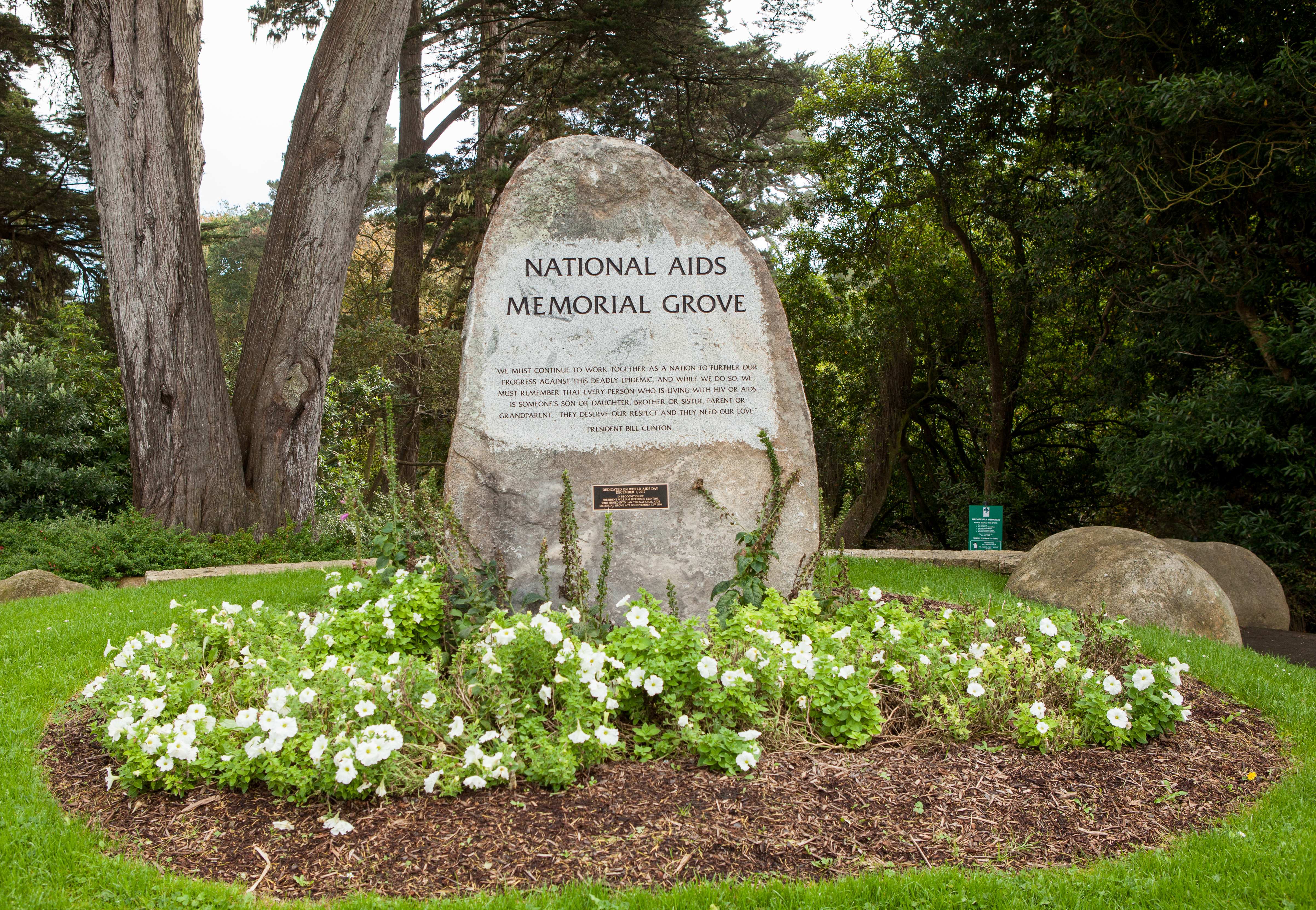 Marker at an entrance to the National AIDS Memorial Grove, San Francisco.